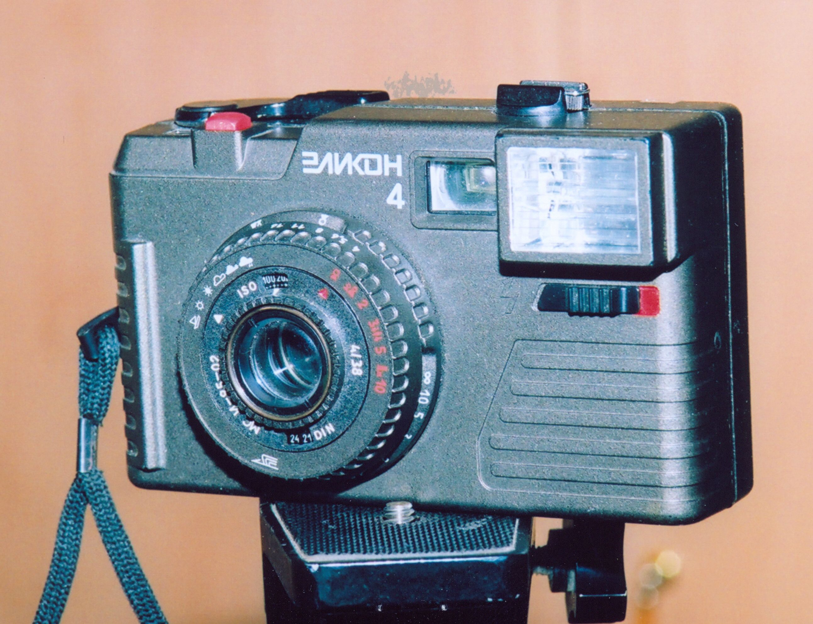 Elicon 4